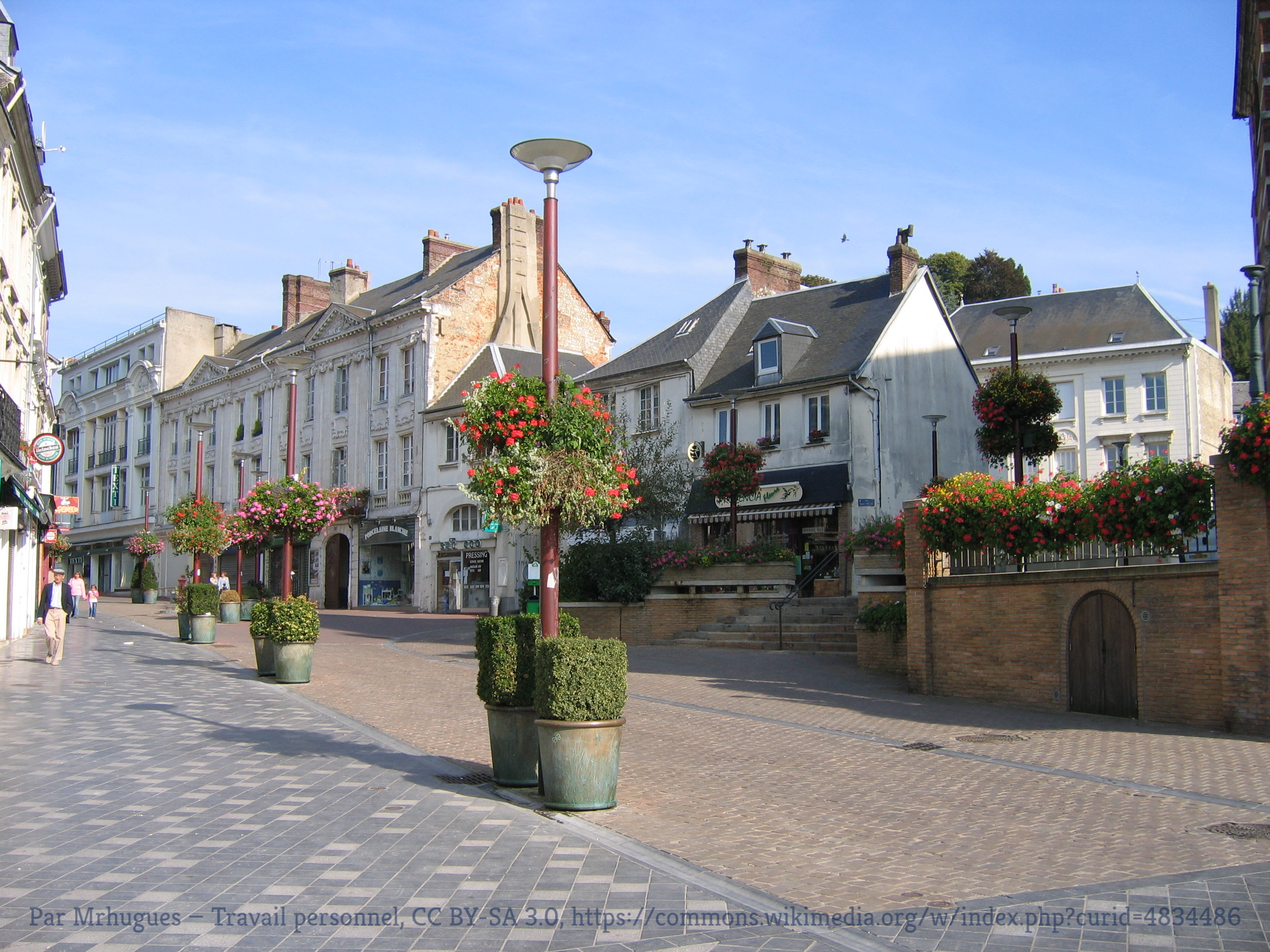 Semi-pedestrian street of the Republic later church